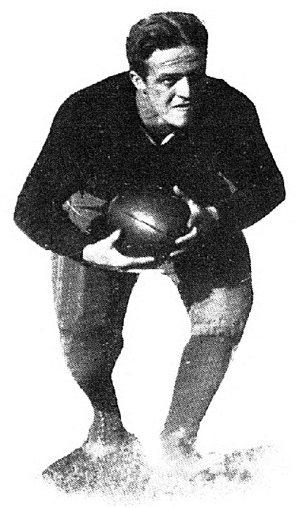 Photograph of Tod Rockwell This work is in the public domain because it was published in the United States between 1923 and 1963 and although there may or may not have been a copyright notice, the copyright was not renewed. Unless its author has been dead for the required period, it is copyrighted in the countries or areas that do not apply the rule of the shorter term for US works, such as Canada (50 pma), Mainland China (50 pma, not Hong Kong or Macao), Germany (70 pma), Mexico (100 pma), Switzerland (70 pma), and other countries with individual treaties. See Commons:Hirtle chart for further explanation. This work is in the public domain in the United States because it was published in the United States between 1923 and 1977 without a copyright notice. See this page for further explanation. Note that it may still be copyrighted in jurisdictions that do not apply the rule of the shorter term for US works (depending on the date of the author's death), such as Canada (50 p.m.a.), Mainland China (50 p.m.a., not Hong Kong or Macao), Germany (70 p.m.a.), Mexico (100 p.m.a.), Switzerland (70 p.m.a.), and other countries with individual treaties.